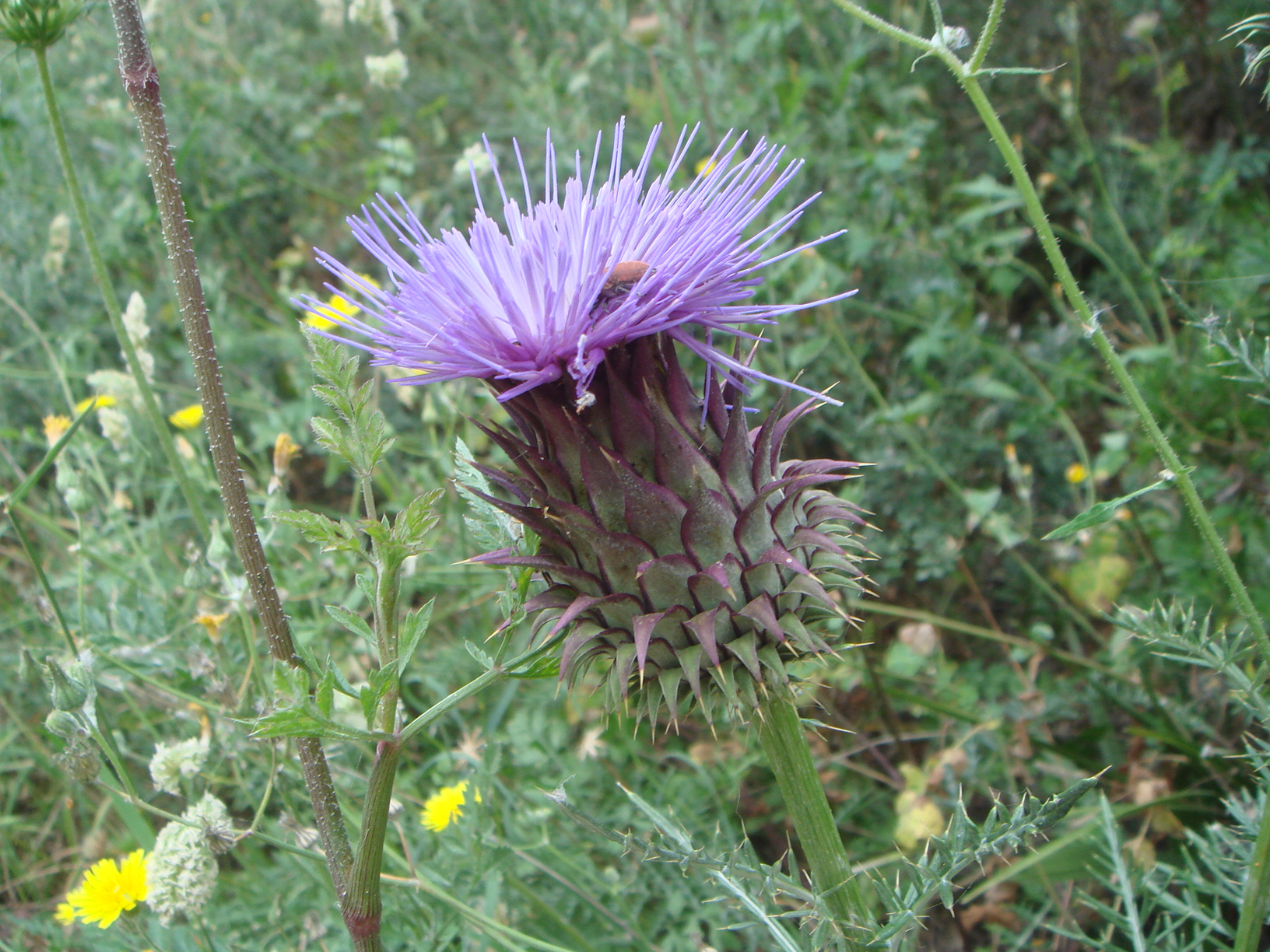 (Cynara humilis), Spain, Ceuta